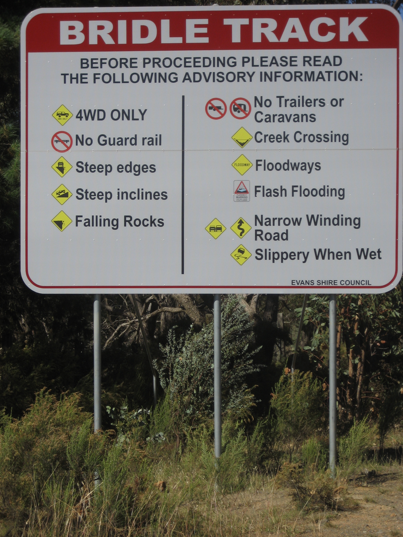 Bridel Track